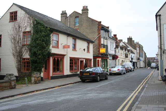 Huntingdon High Street The south-east end of the High Street, now mainly pubs and restaurants, seems to be thriving, while the north west end is full of estate agents and empty shops. The building of the ring road in the 1970s effectively severed the artery of the High Street from the wider Huntingdon and while the centre of the town is fairly busy the ring road leads shoppers round and round and on to large supermarkets.